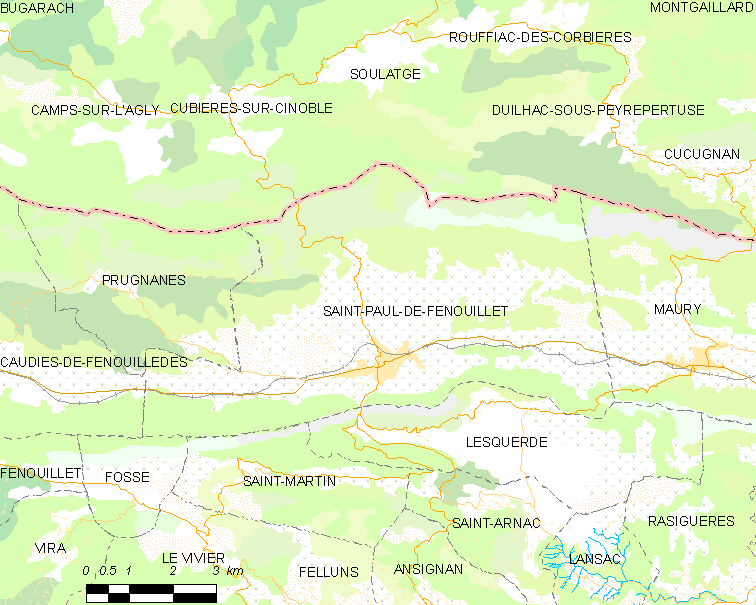 Map of French municipality